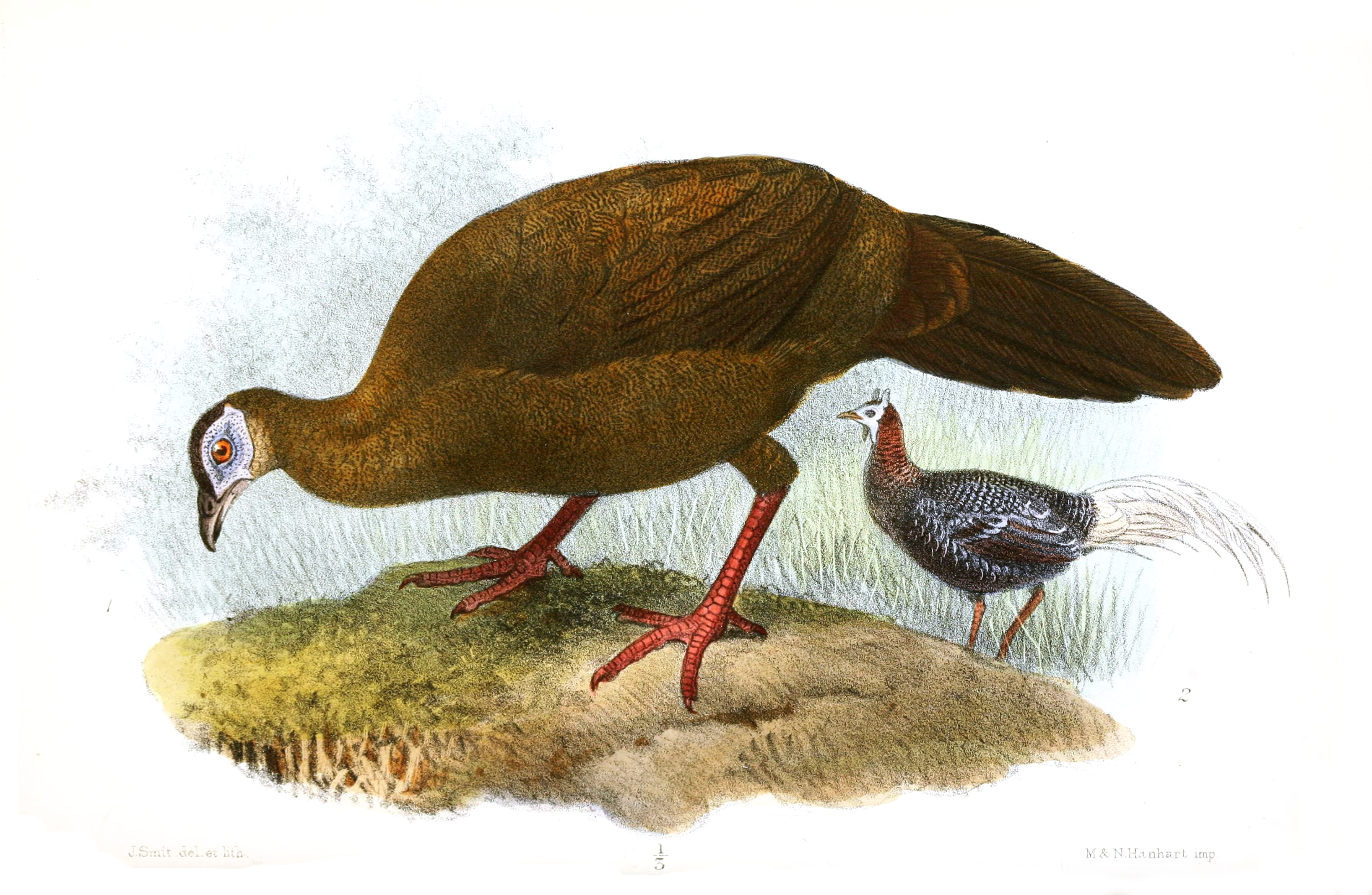 Lobiophasis bulweri = Lophura bulweri